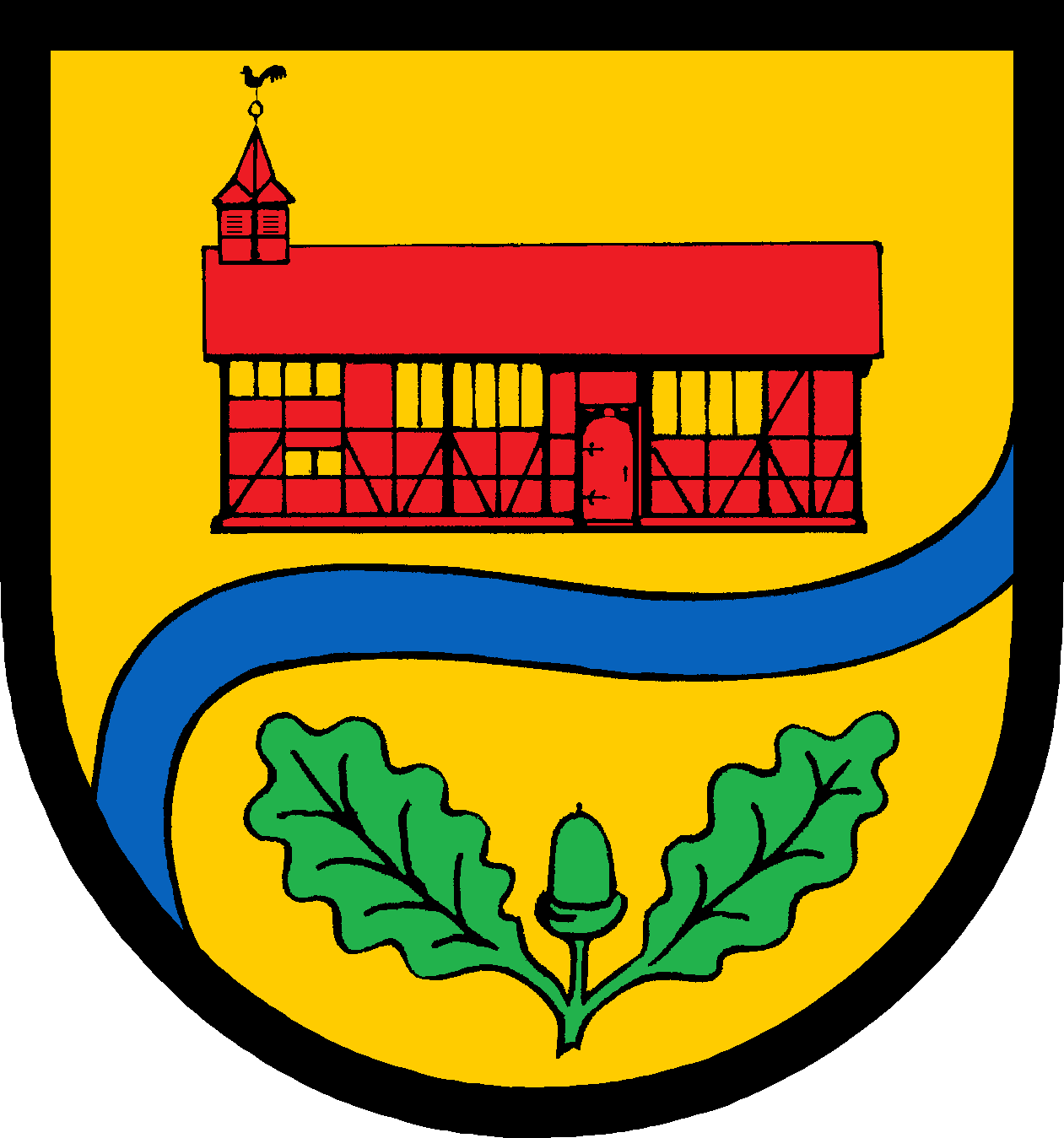 Coat of arms of the municipality Fuhlenhagen in Schleswig-Holstein, Germany.